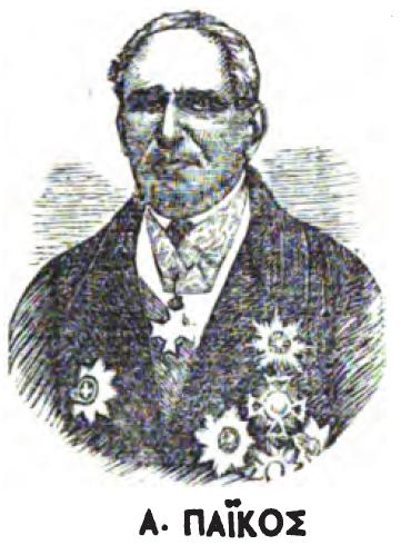 Poikilē stoa: ethnikē eikonographēnenē epetēris ... Etos 1-16, 1881-1914 (1881) Author: Ioannes A. Arsenēs , Michael A . Raphaelobits Volume: 1-2 Publisher: Estia Year: 1881 Possible copyright status: NOT_IN_COPYRIGHT Language: Greek Digitizing sponsor: Google Book from the collections of: Harvard University Collection: americana